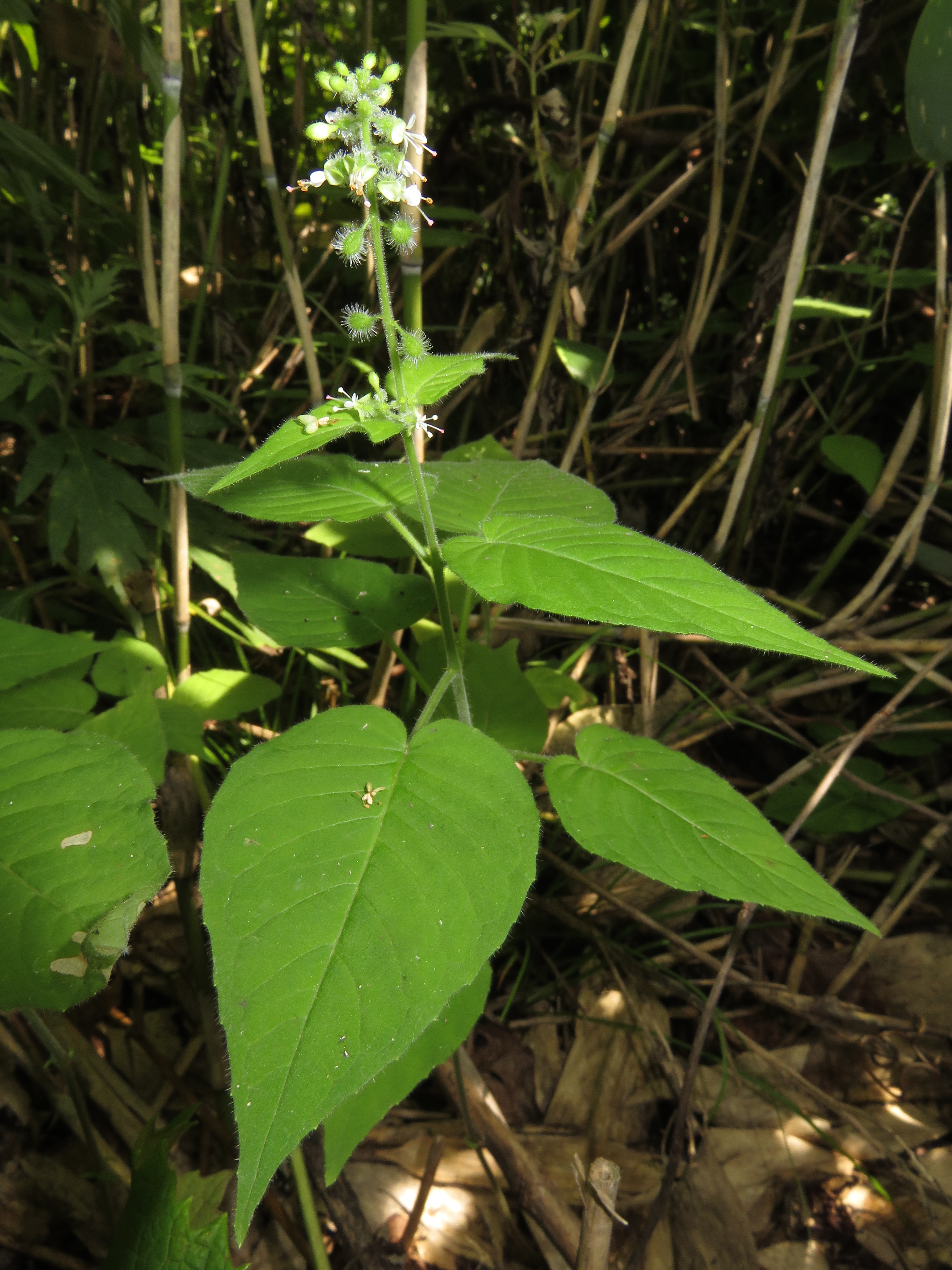 Circaea cordata, Aizu area, Fukushima pref., Japan